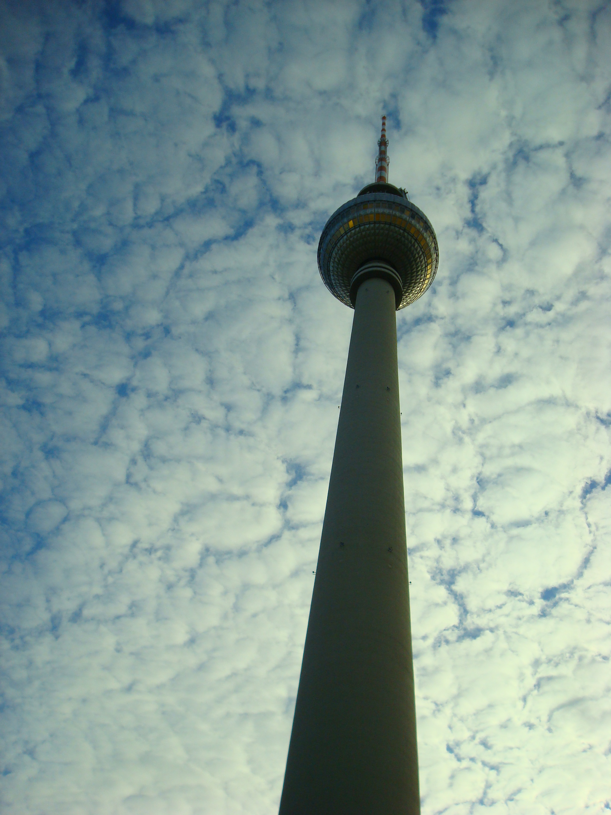 Berlin. television tower